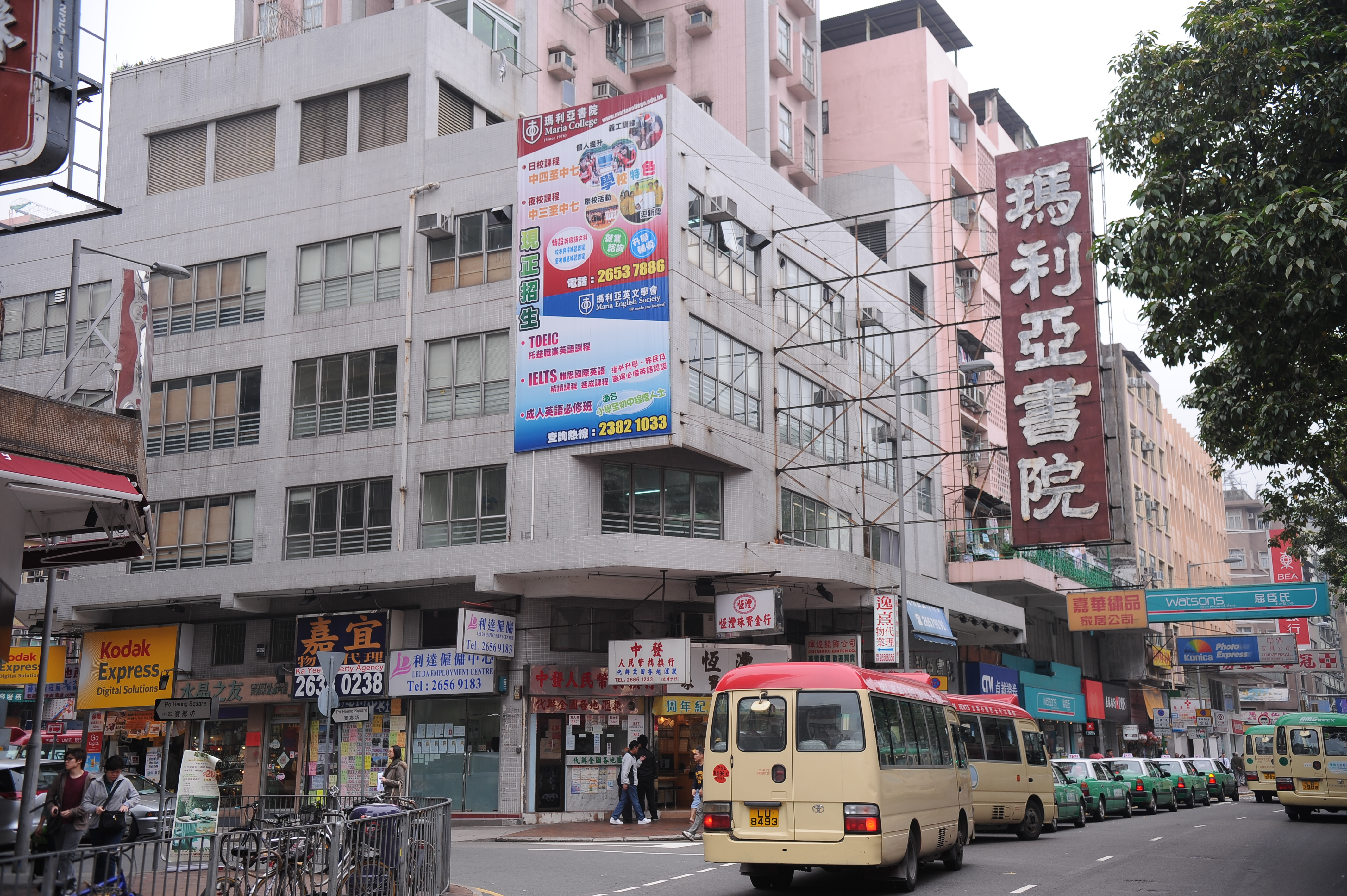 tpschool - 新界大埔鎮zh:寶鄉街88號地下